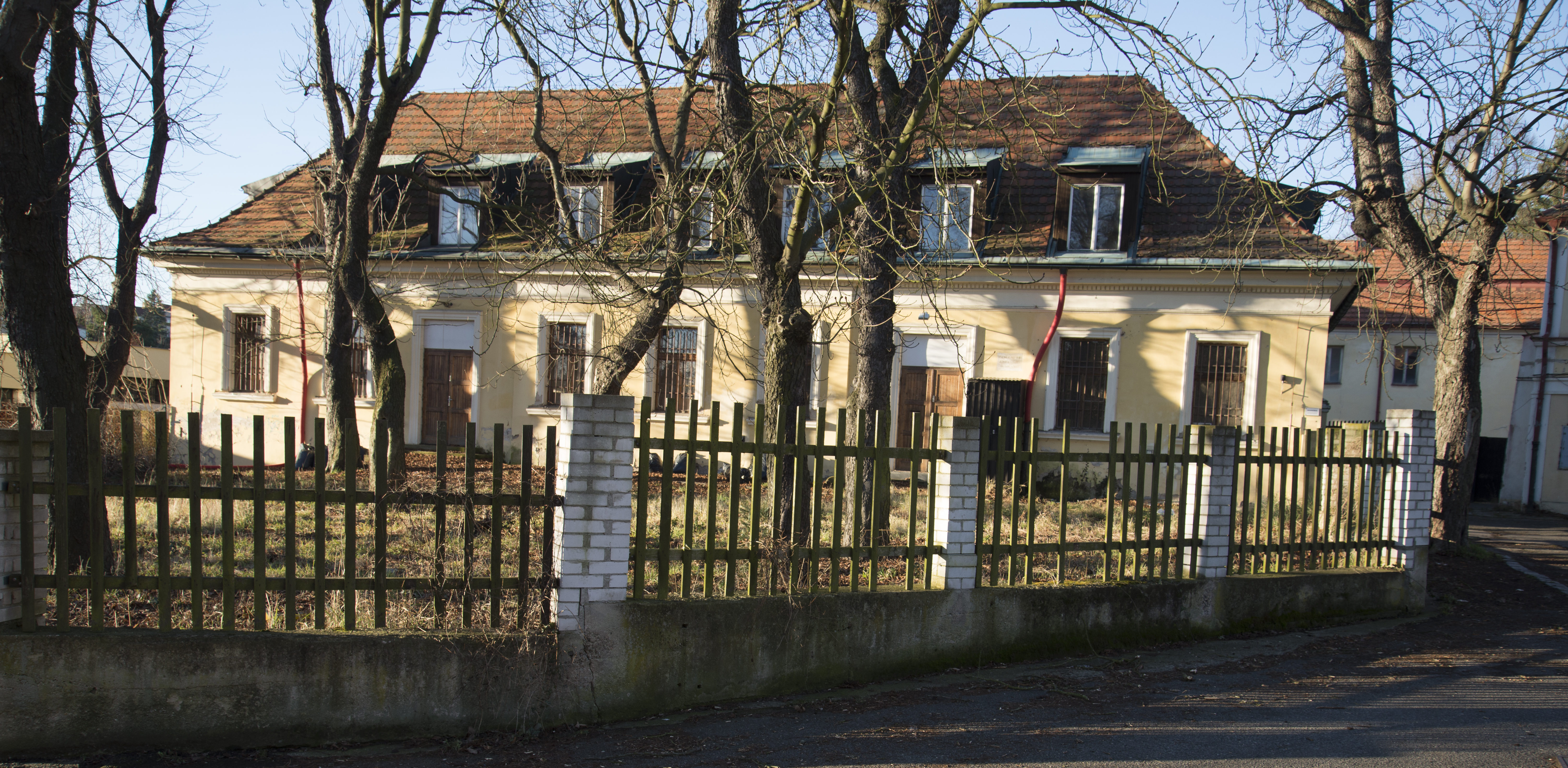 Cultural monument "Hendlův dvůr" near the church of St. Matthias, U Matěje street, Dejvice, Prague 6, Czech Republic.